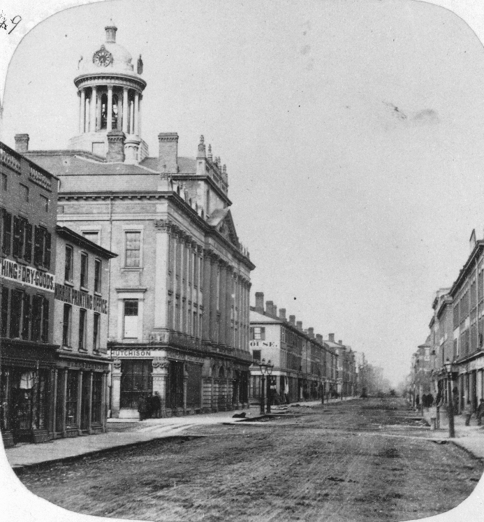 View of St. Lawrence Hall, looking west on King Street East (Toronto, Canada)